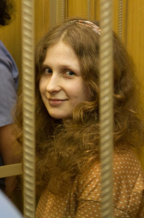 Maria Alekhina (Pussy Riot) at the Moscow Tagansky District Court - Denis Bochkarev.